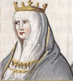 Miniature of Maria of Aragon, first wife of John II of Castile